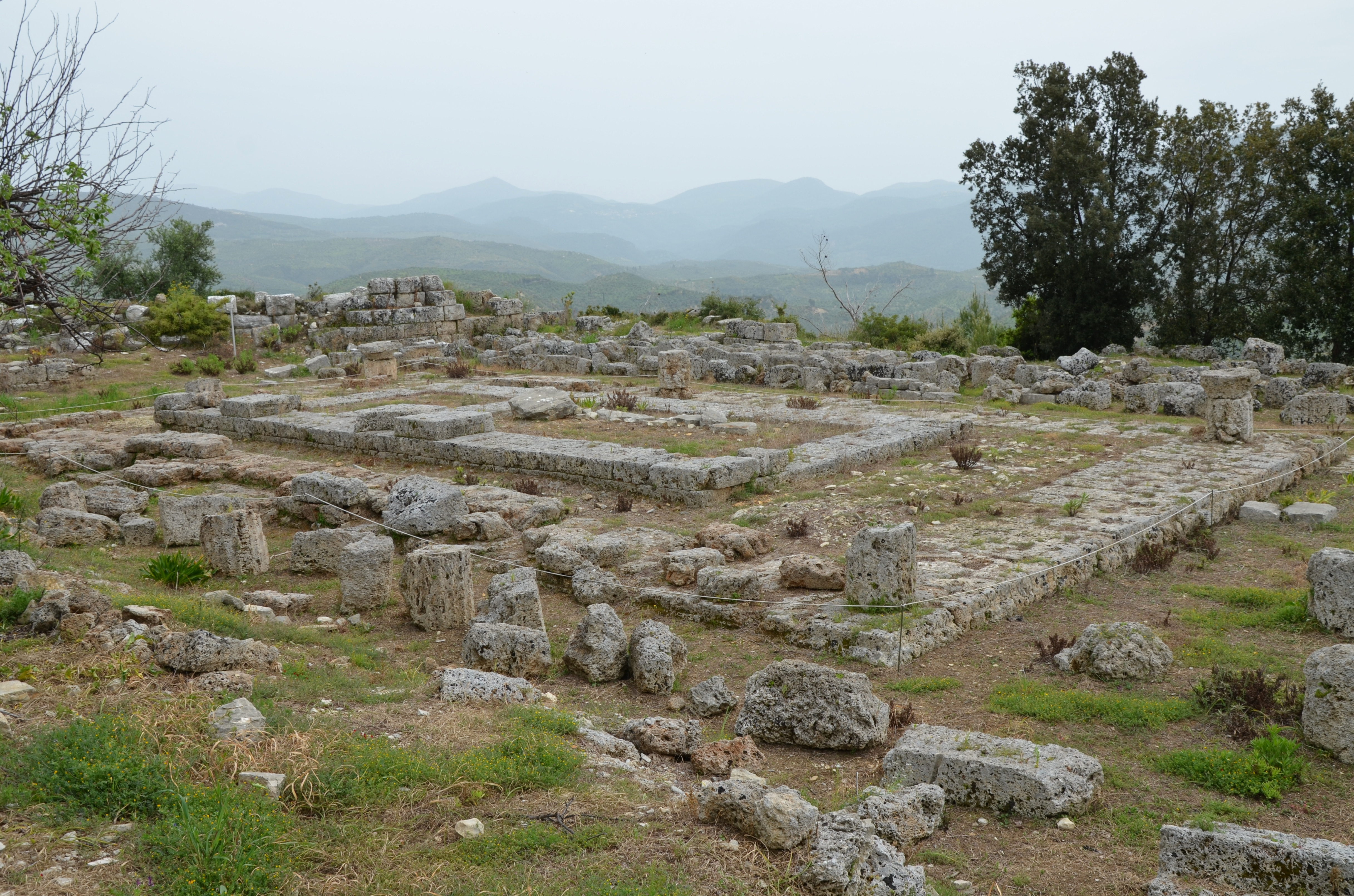 Temple of Demeter, dated to the 1st half of the 4th century BC, Lepreon, Greece